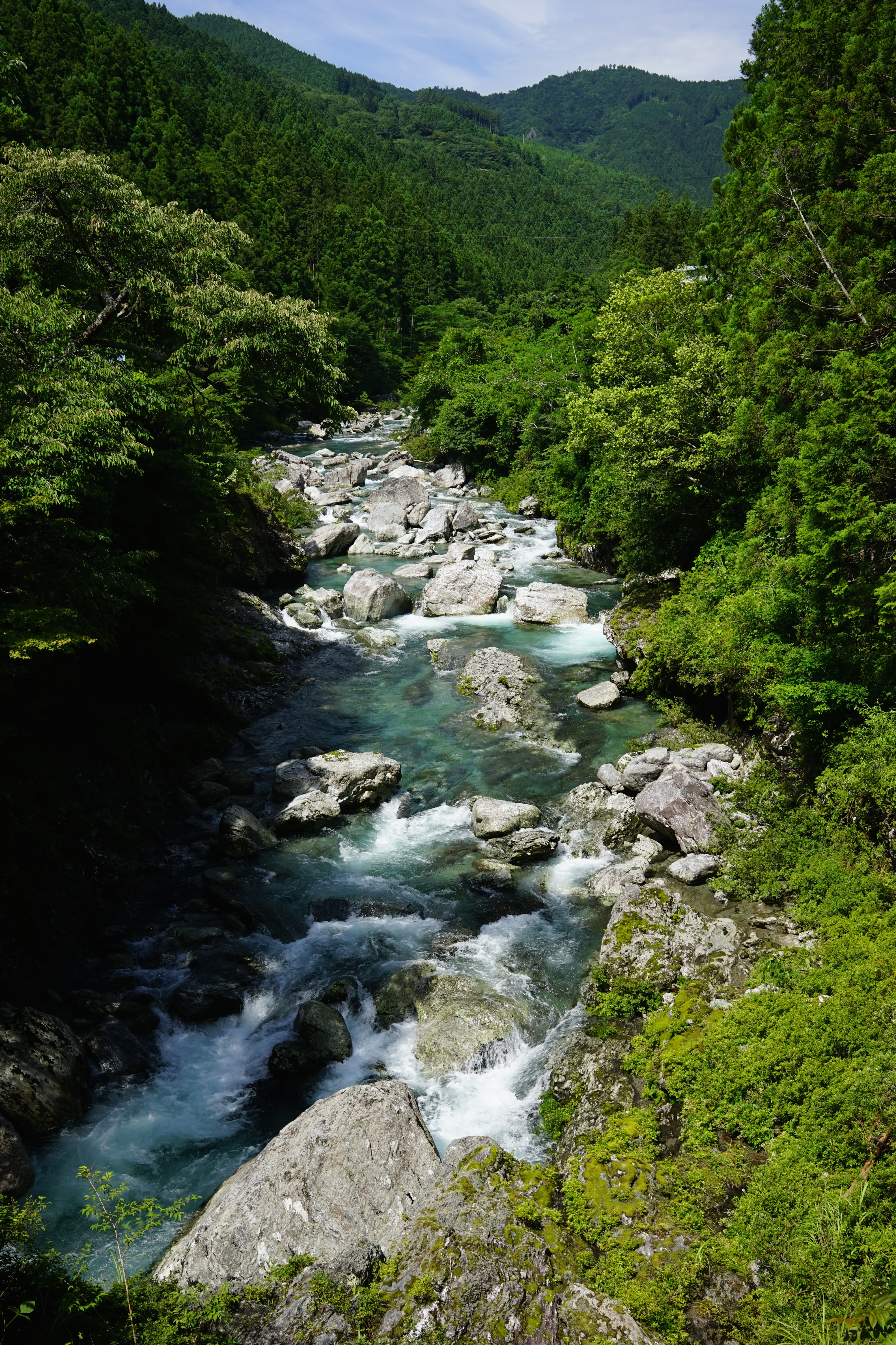 Sedo, Tosa, Tosa District, Kochi Prefecture 781-3337, Japan